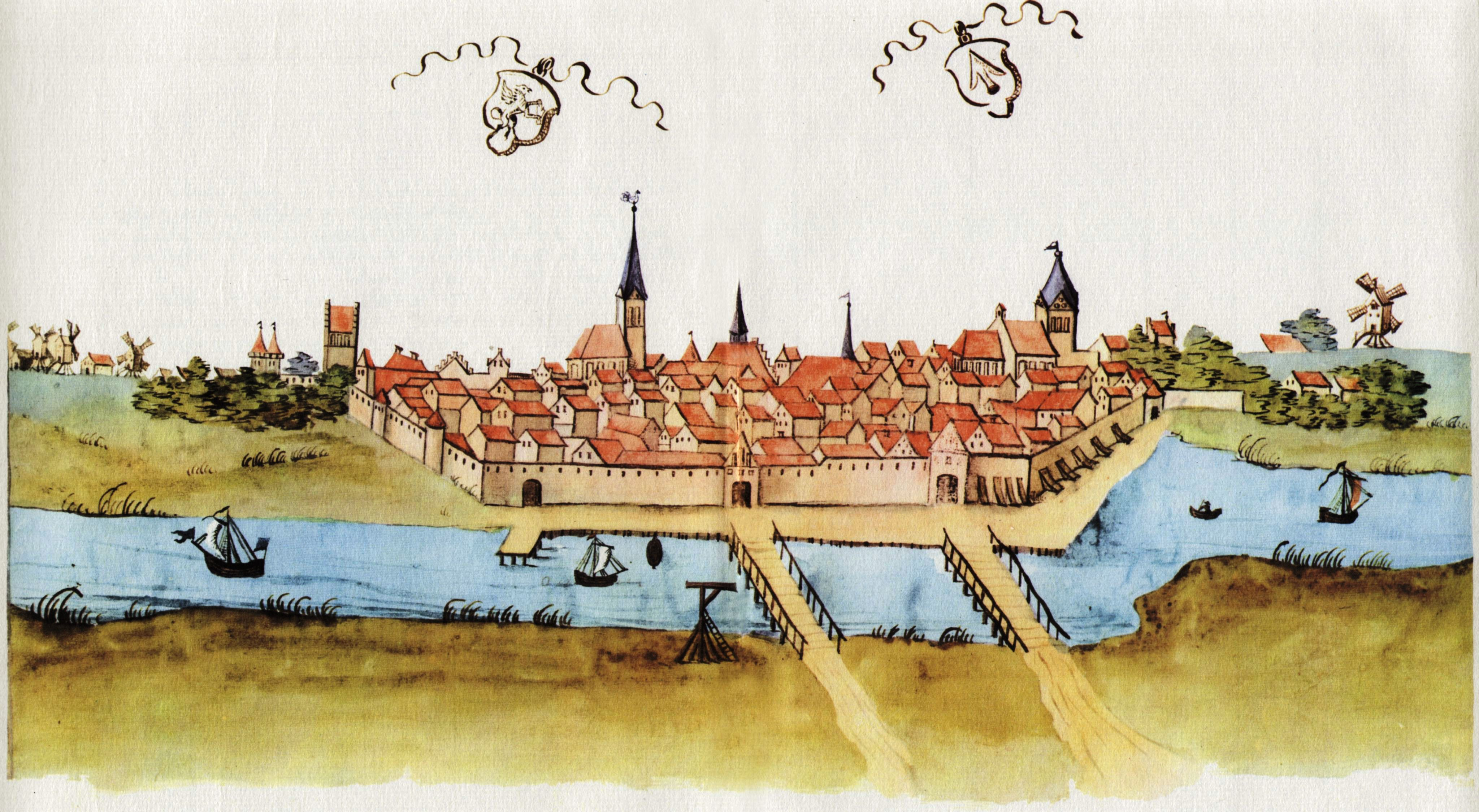 Cityview of Anklam from the "Stralsunder Bilderhandschrift"